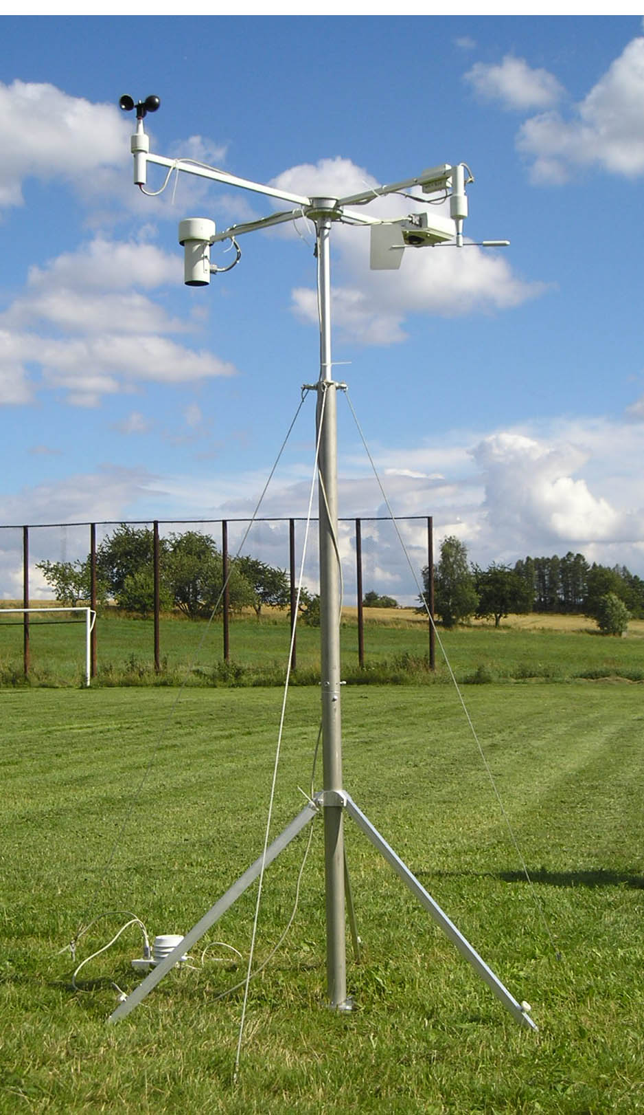 Special weather station which is intened for measuring of physical and meteorological quantities during solar eclipse (Project - Solar Eclipse Meteorological Measurement). Its owner and user is the Observatory and Planetarium in Plzen in the Czech Republic.